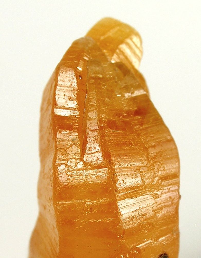 Corundum, Sapphire Locality: Ratnapura, Ratnapura District, Sabaragamuwa Province, Sri Lanka (Locality at ) Size: miniature, 3.0 x 1.5 x 1.1 cm Sapphire (Corundum) An unusual crystal in several respects, for both its strong, vivid yellow-orange color ; and for its twisted form. This specimen weighs 53 cts and is a complete floater. Its surreal, curving form is graceful and bizarre. As well, I just have never seen such a color-saturated sapphire in this hue, as a natural crystal, before. It is a really stunning piece, in person